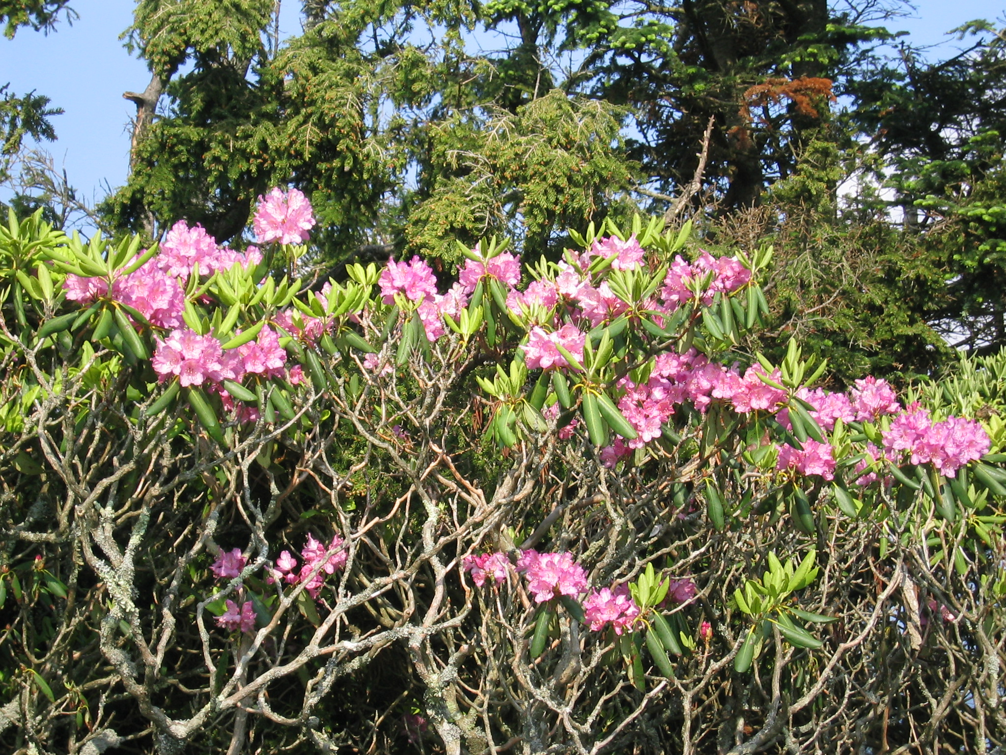 A picture of "Rhododendron catawbiense", the Catawba Rhododendron. This photo was taken on June 23, 2005 just outside the ranger station of Mt. Mitchell, North Carolina USA near the Blue Ridge Parkway. The photo was taken by Jason Edgecombe. and the picture was classified by Dr. David Royster, a Rhododendron hobbyist and Professor of Mathematics at The University of North Carolina at Charlotte. Copyright 2005, Jason Edgecombe aka Edgester This photo is licensed under the GNU FDL and Creative Commons CC-BY-SA licenses. 19:02, 5 February 2006 (UTC)